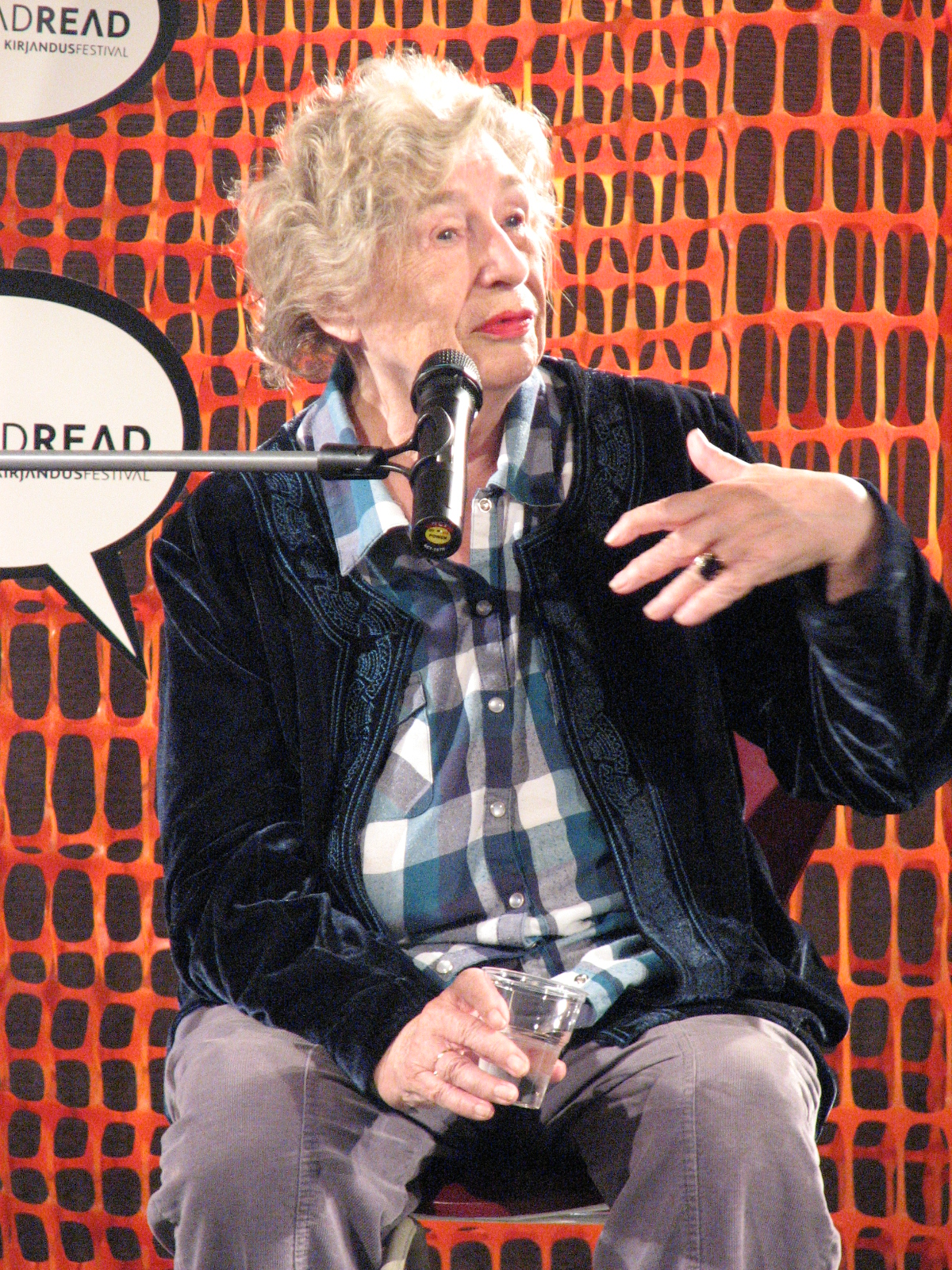 M.C.Beaton performing in literature festival HeadRead